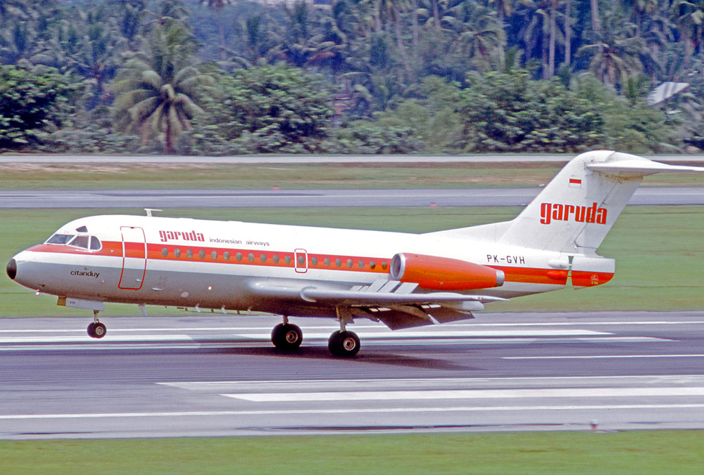 Fokker F28 Fellowship PK-GVH of Garuda Indonesian at Singapore Airport in 1974